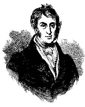 Mountstuart Elphinstone, Governor of Bombay (1819 - 1827)